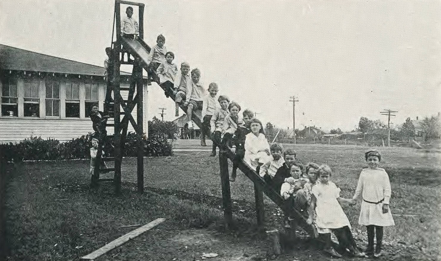 The First Grade at the East Texas State Normal College Training School.